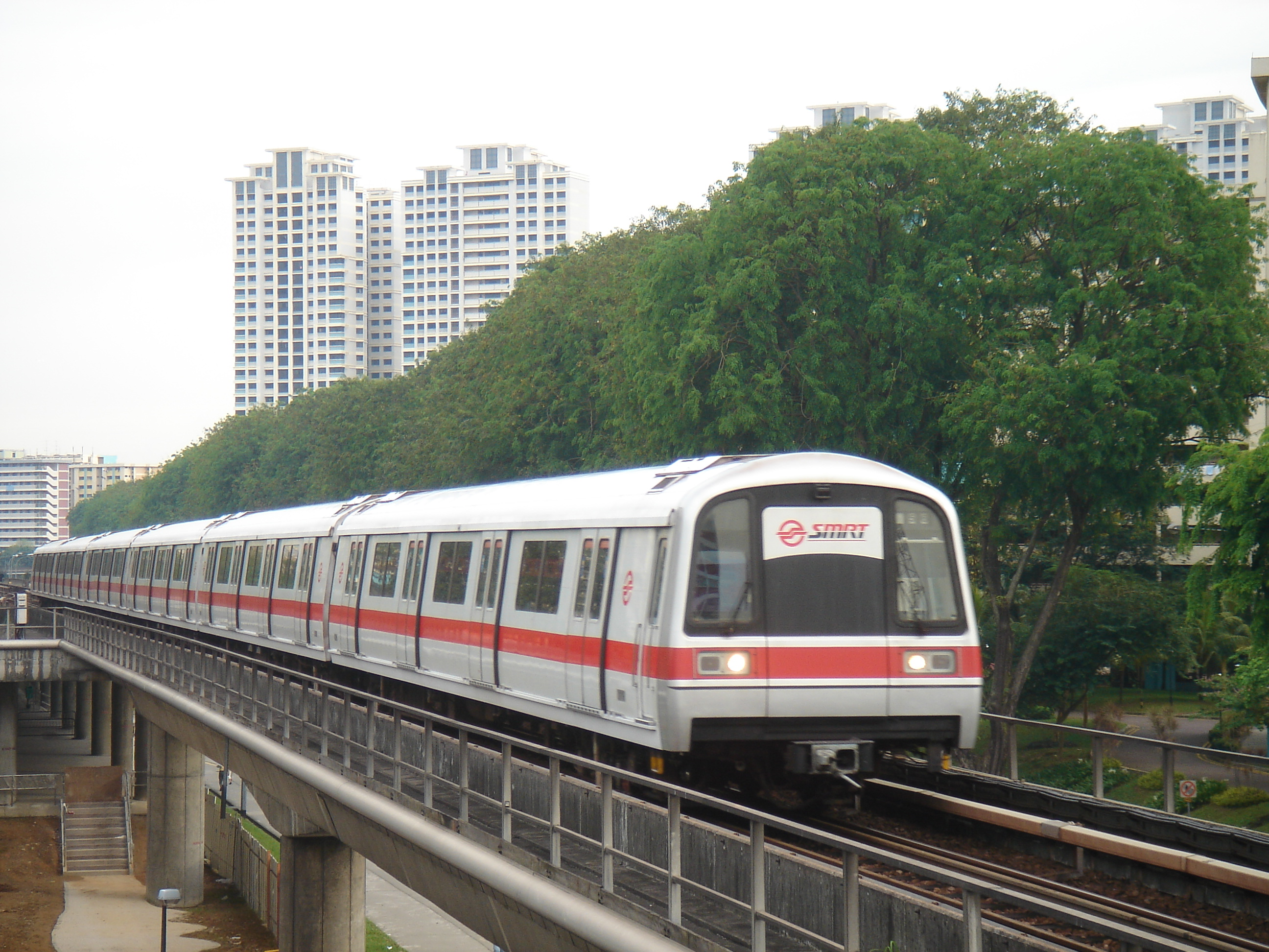 A C151 on viaduct approaching Ang Mo Kio MRT Station.